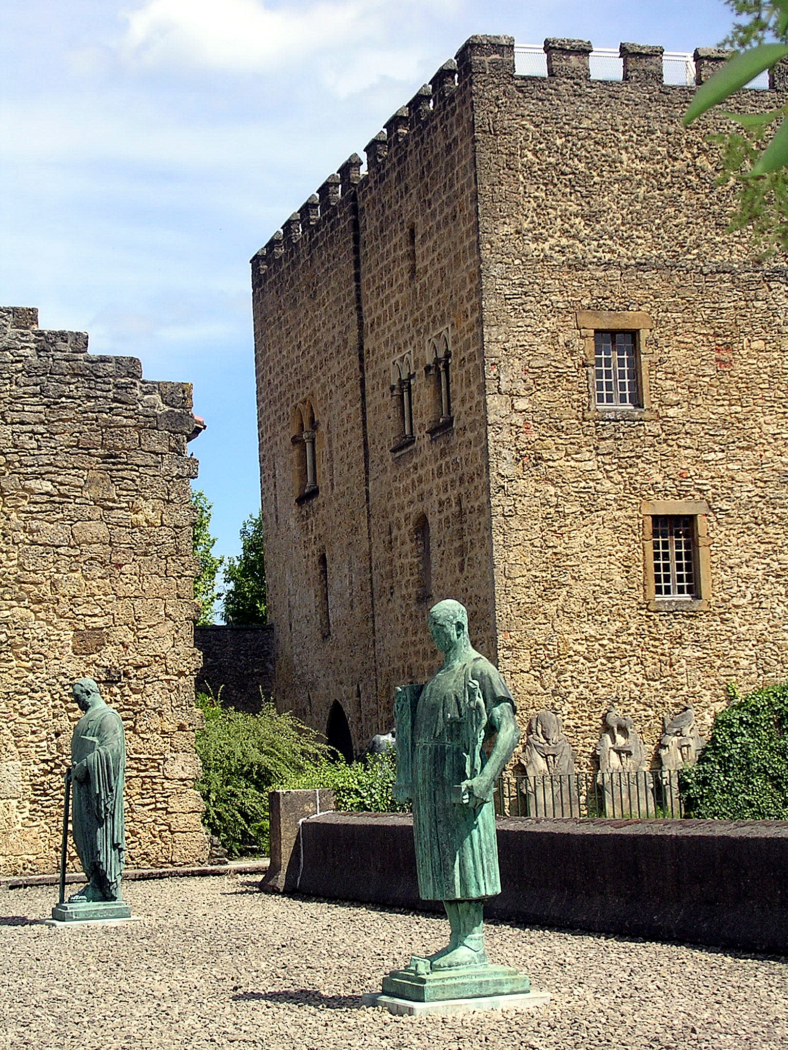 Despiau Museum (outside), in Mont de Marsan, Landes, France